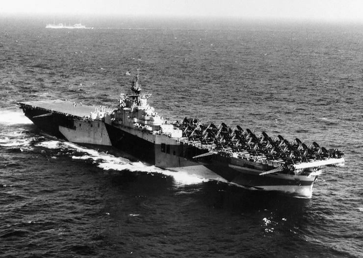 The U.S. Navy aircraft carrier USS Bennington (CV-20) underway during her shakedown, in the western Atlantic or Caribbean area, 20 October 1944. She is painted in camouflage Measure 32, Design 17A-1. Note tanker in the left distance.